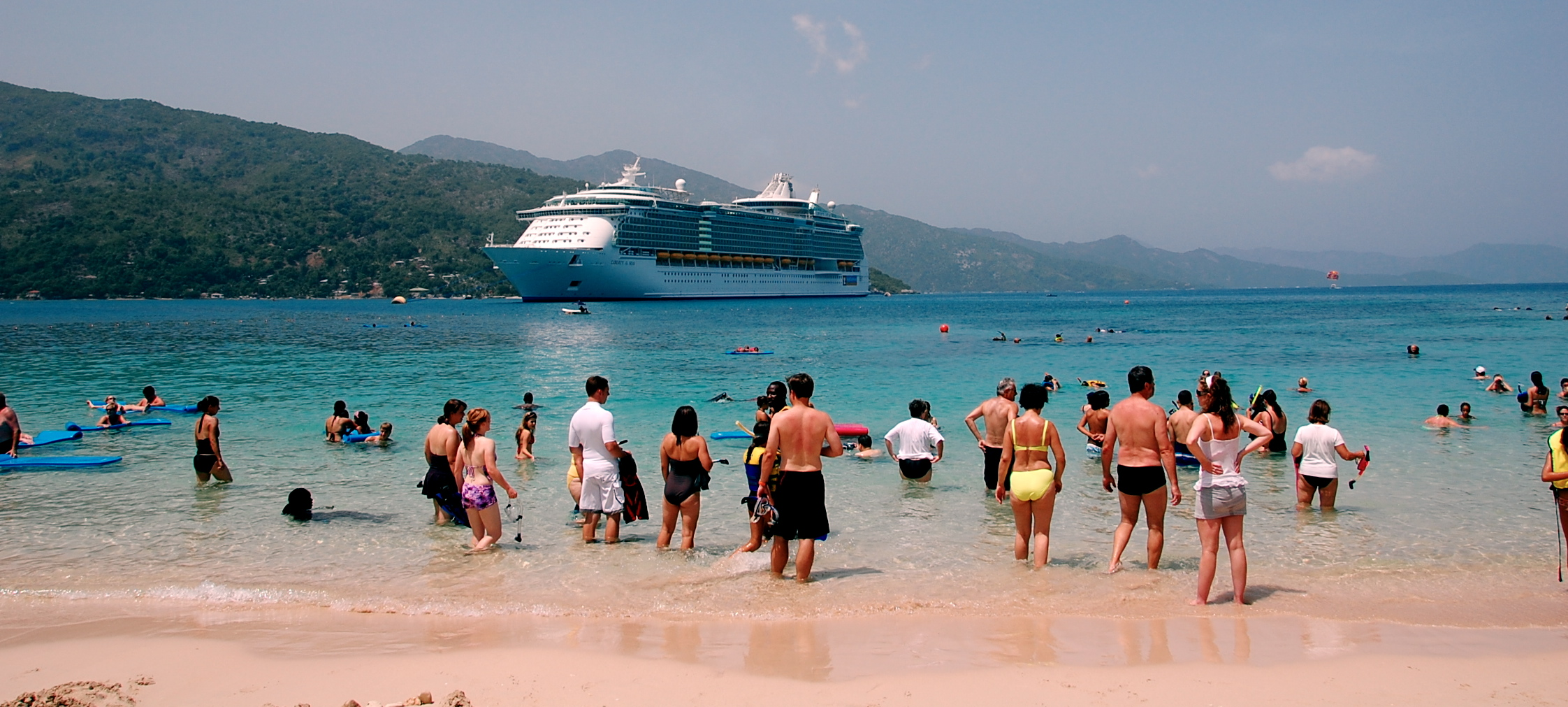 Labadee - RCCL-Port on Haiti